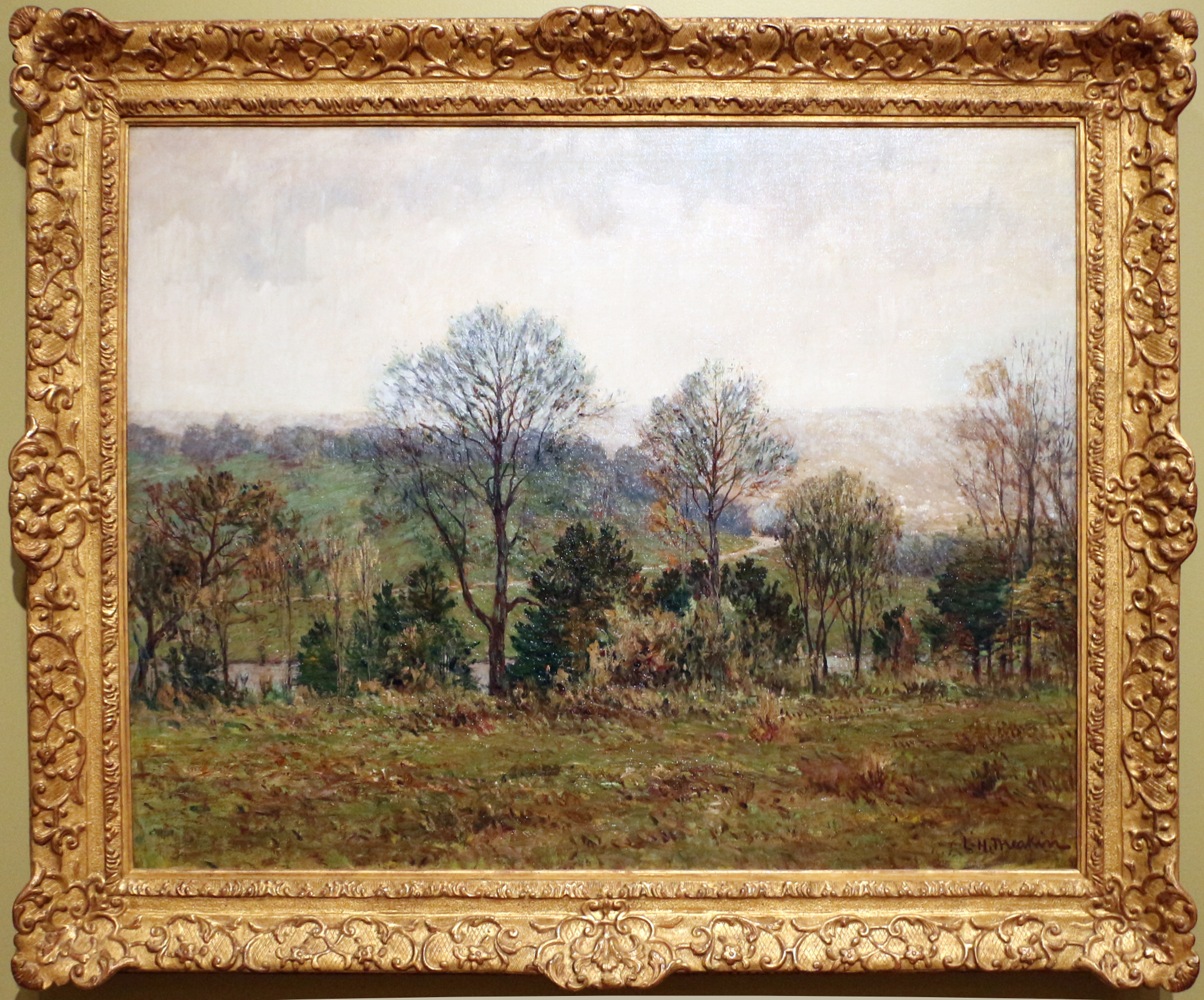 Paintings in the Cincinnati Art Museum